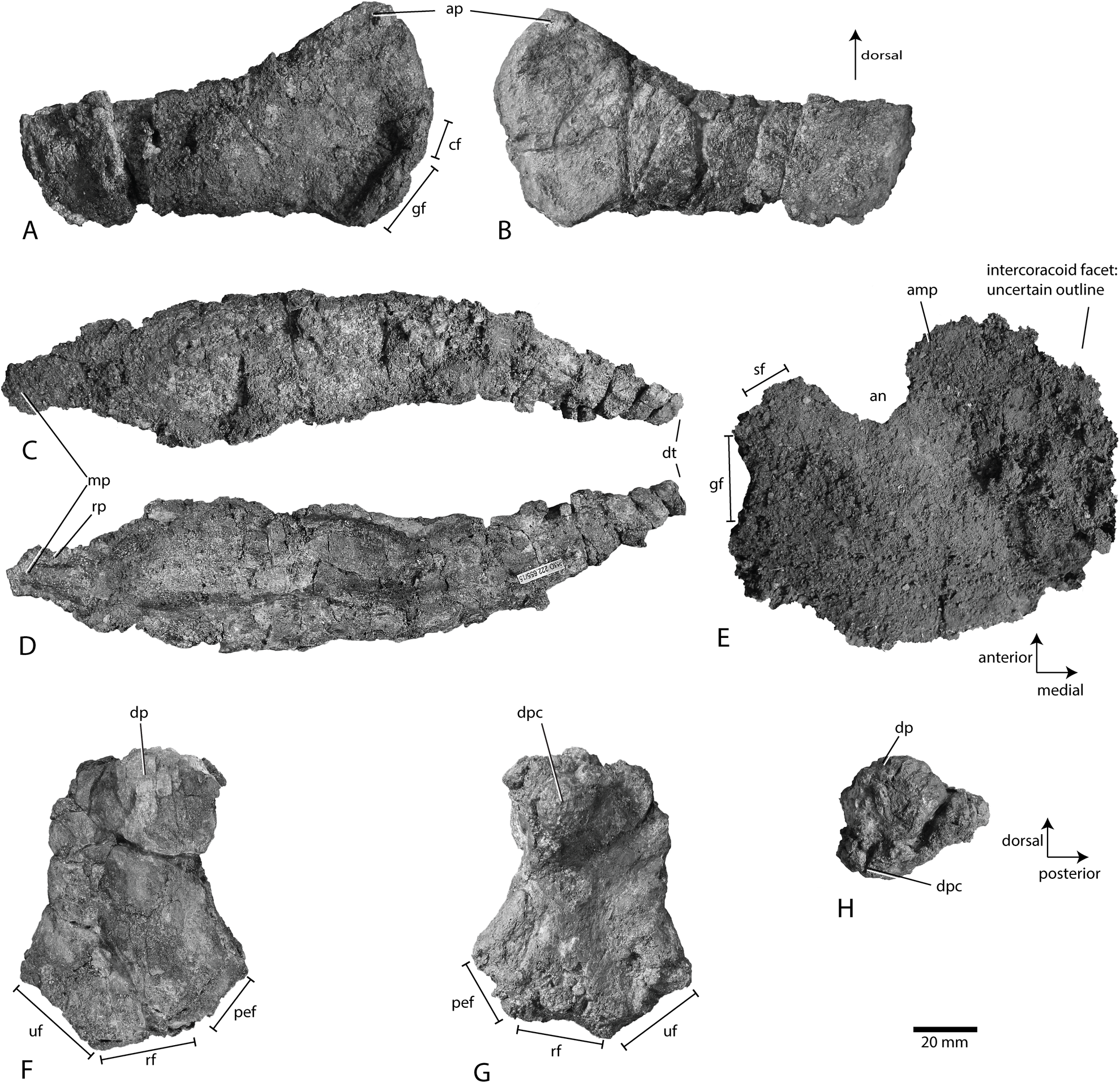 Fig 8. Right pectoral girdle and humerus of Keilhauia nui PMO 222.655. Scapula in A lateral and B medial views. Clavicle in C dorsal and D ventral views. Coracoid in E ventral view. Humerus in F dorsal, G ventral and H proximal views. Scale bar equals 20 mm. Abbreviations: amp anteromedial process, an anterior notch, ap acromion process, cf coracoid facet, dp dorsal process, dpc deltopectoral crest, dt distal tip, gf glenoid facet, mp medial projection, pef preaxial accessory element facet, rf radial facet, rp rim on posterior side of medial projection, sf scapular facet, uf ulnar facet.